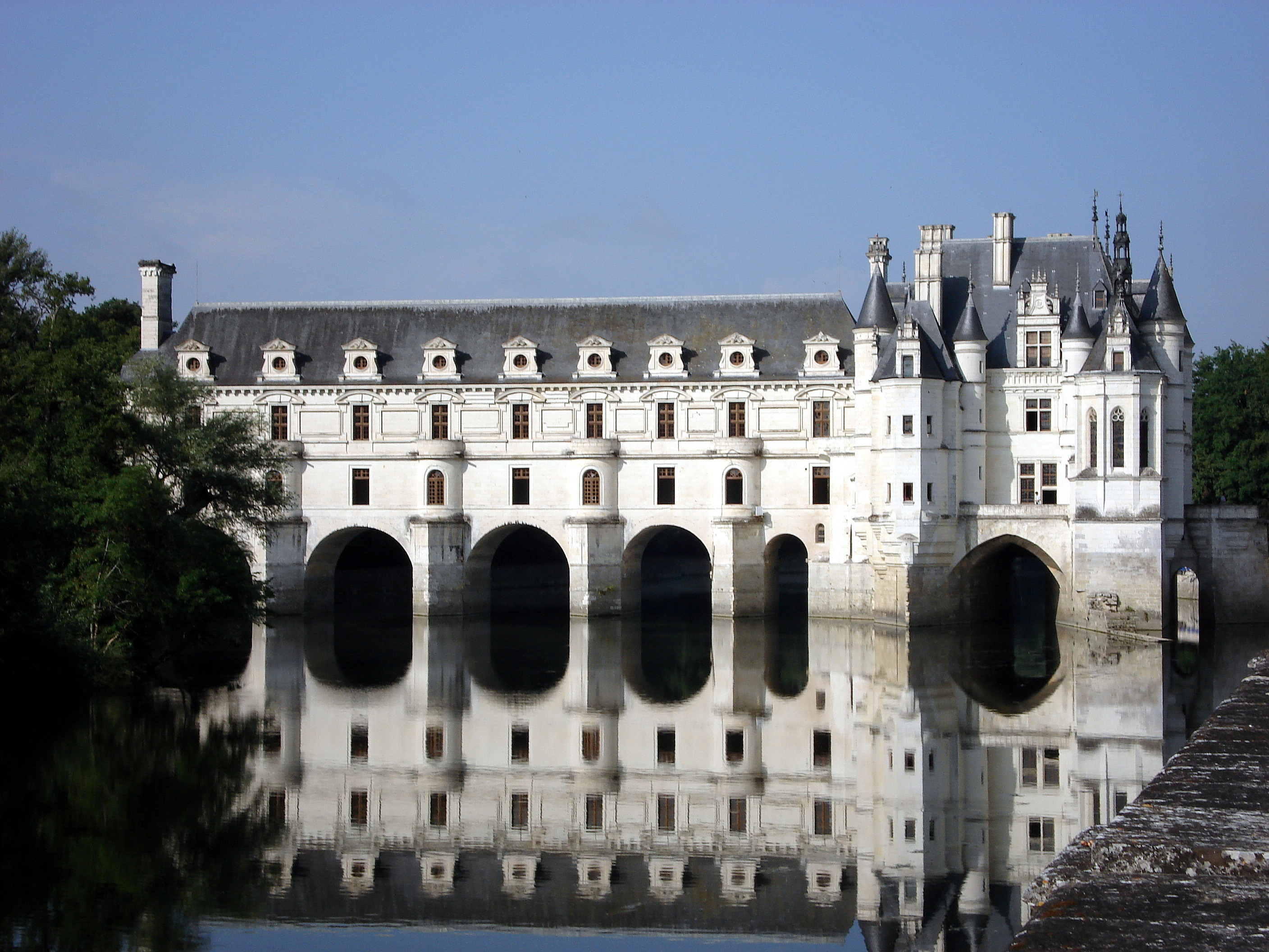 Chenonceau castle, France